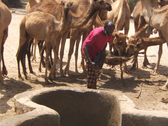 an Awdalite at Gargara's well